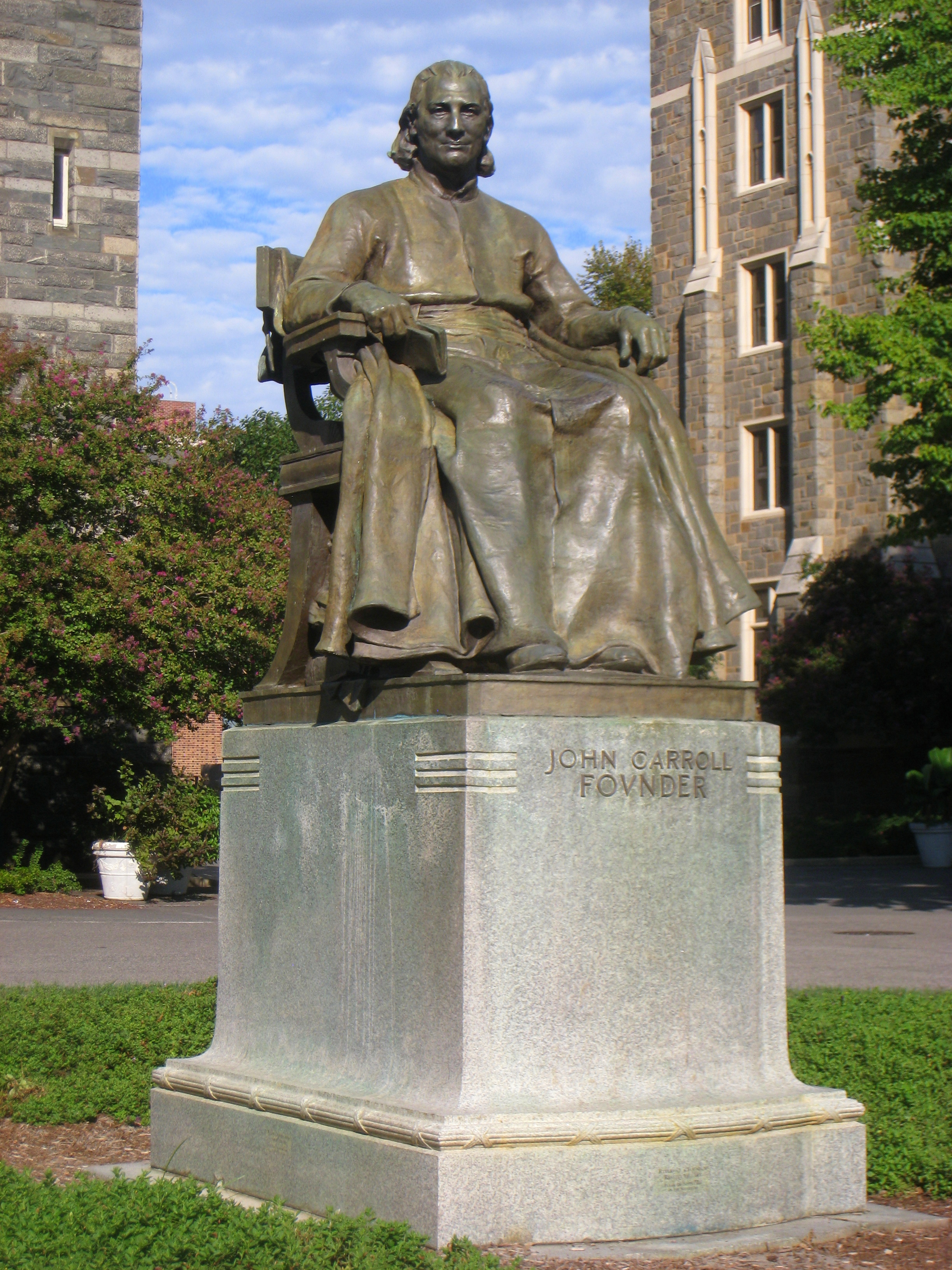 Georgetown University, Washington, DC, USA. Statue of John Carroll by Jerome Conner.